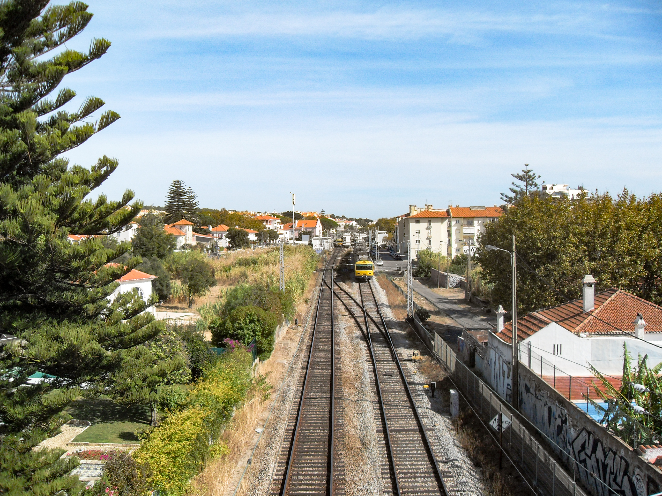 Cascais Railway at São Pedro do Estoril; in the background the railway station São Pedro do Estoril